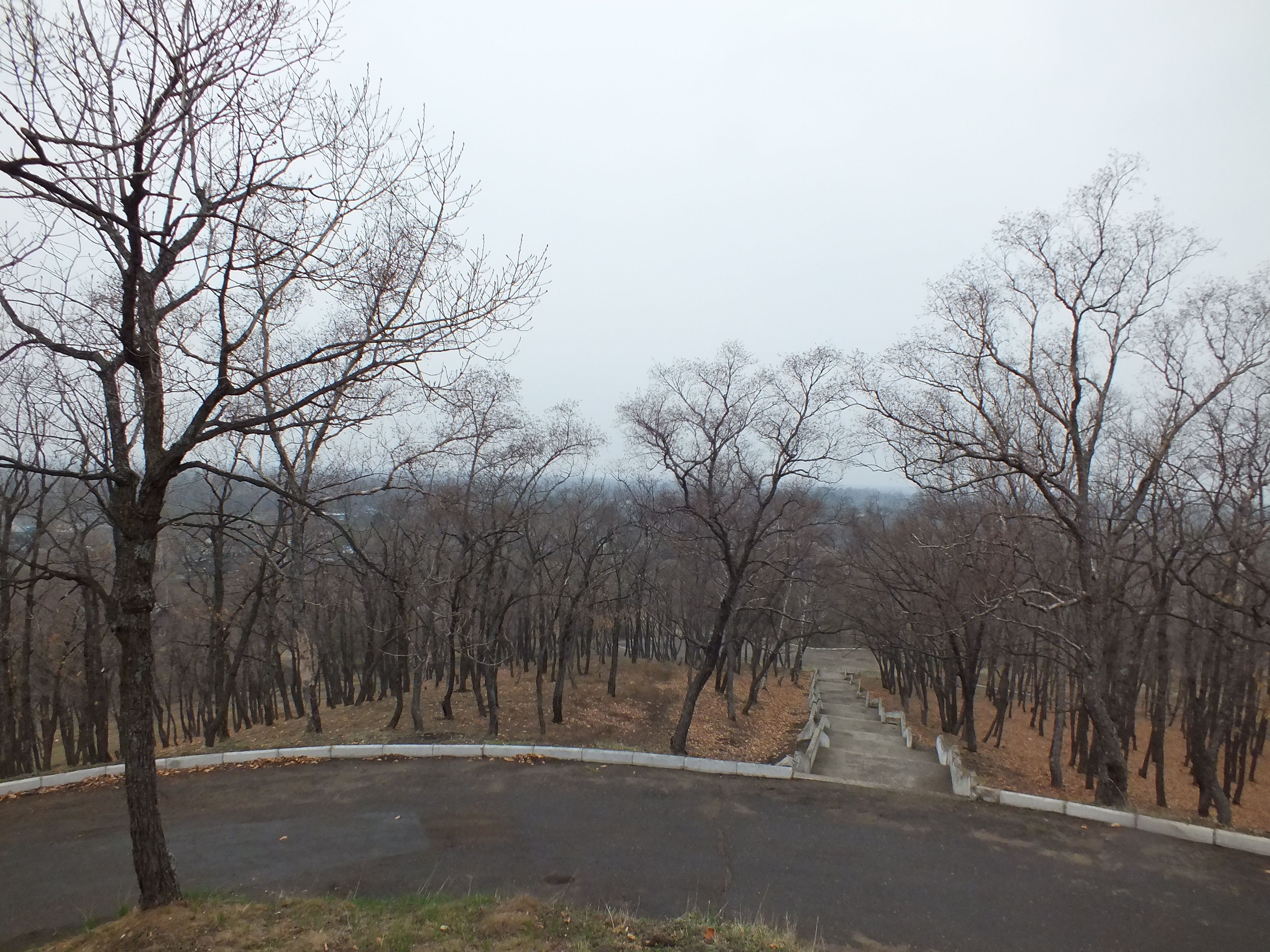 Вид с сопки Июнь-Корань